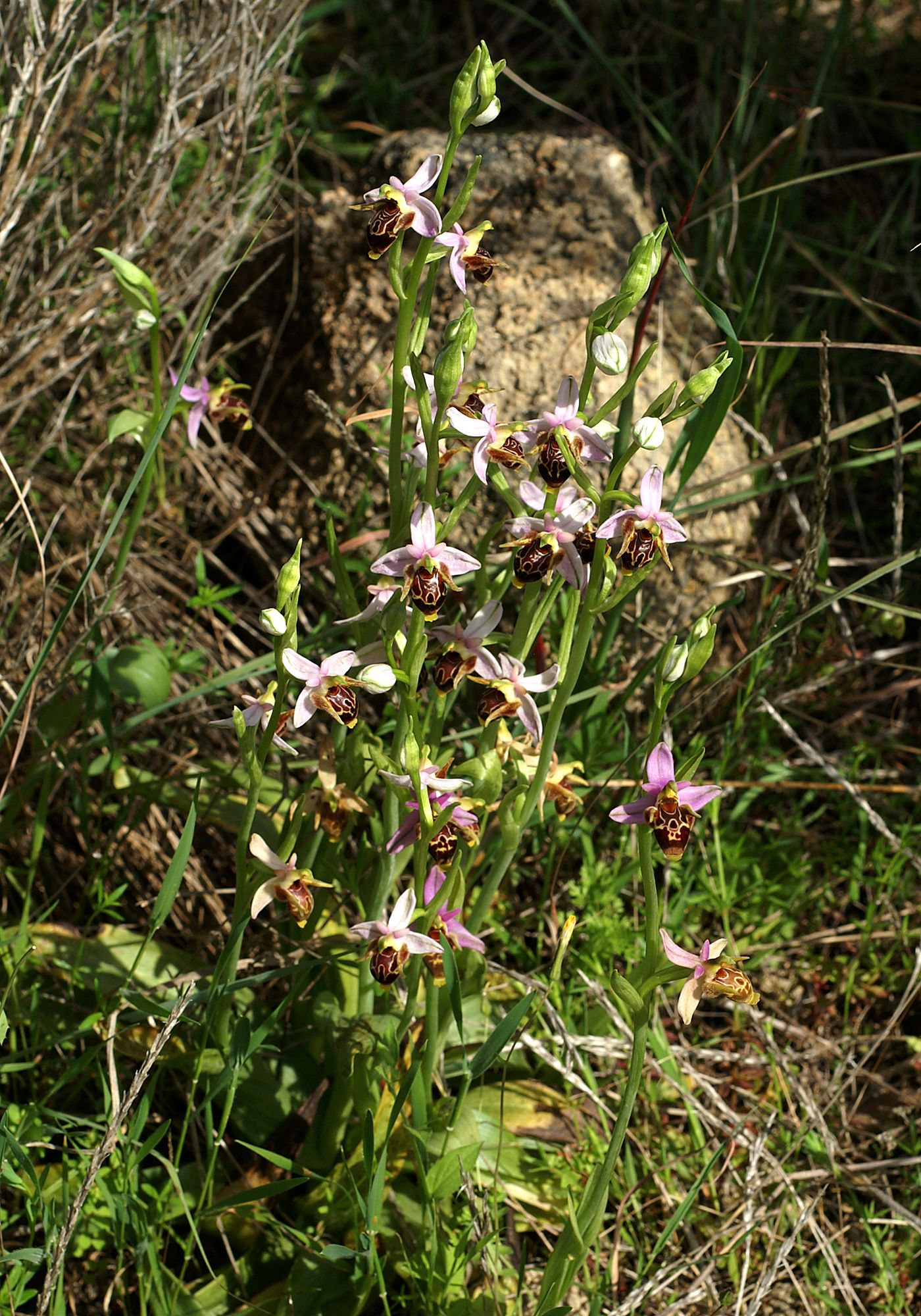 Ophrys crassicornis